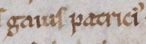 An excerpt from folio 46v of British Library Harley MS 526 (Vita Ædwardi Regis) showing the name of Gospatric, Earl of Northumbria (died 1073×1075).